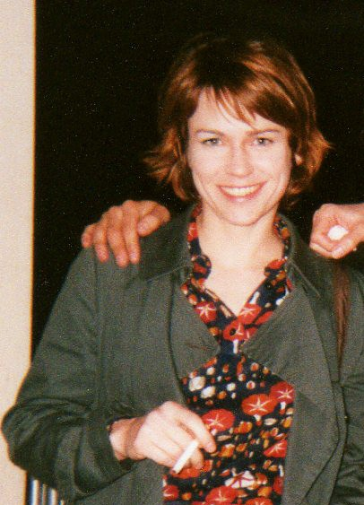 On the set of The Girl from the Chartreuse in Grenoble (France). Actress Marie-Josée Croze.